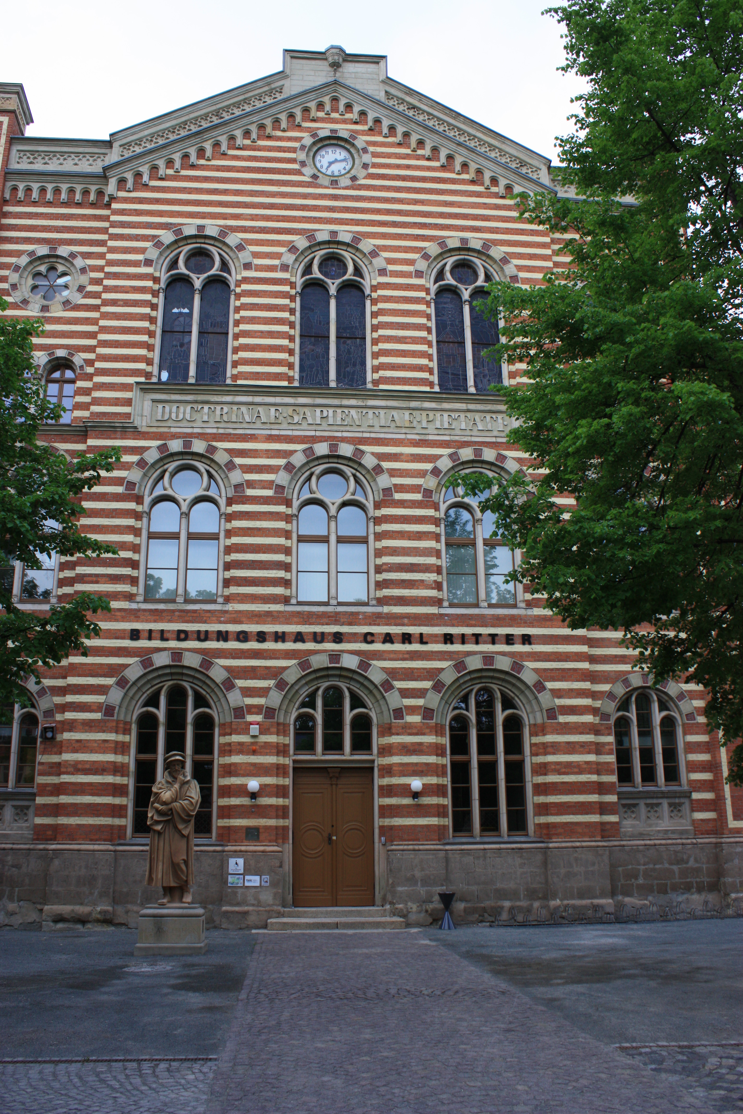 This is a photograph of an architectural monument.It is on the list of cultural monuments of Quedlinburg